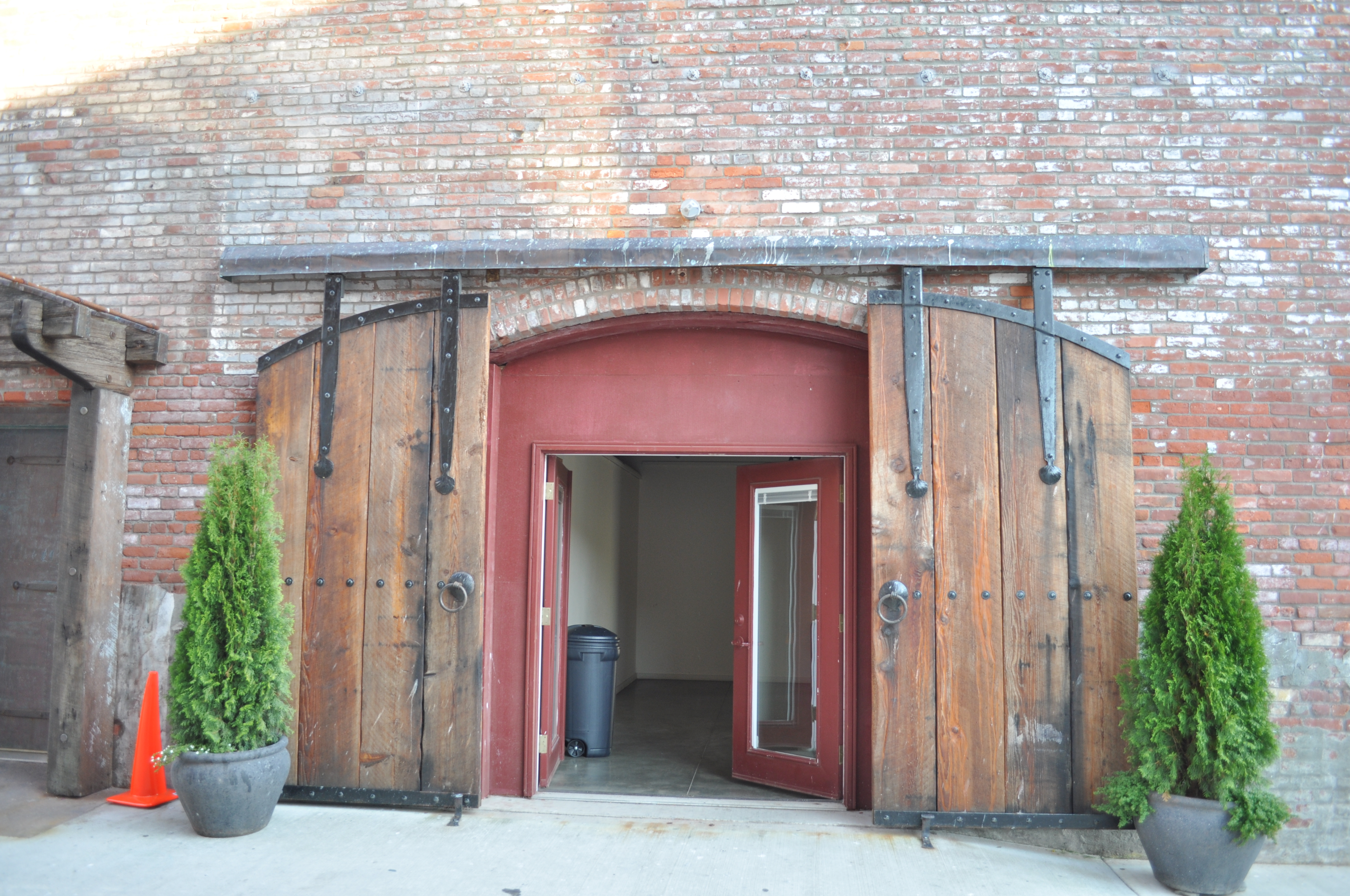 Door, Clam Cannery Hotel, Port Townsend, Washington, USA.